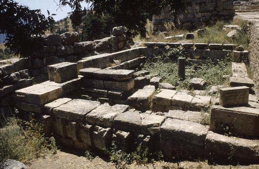 general view of the Sicyonian Treasury in Delphi